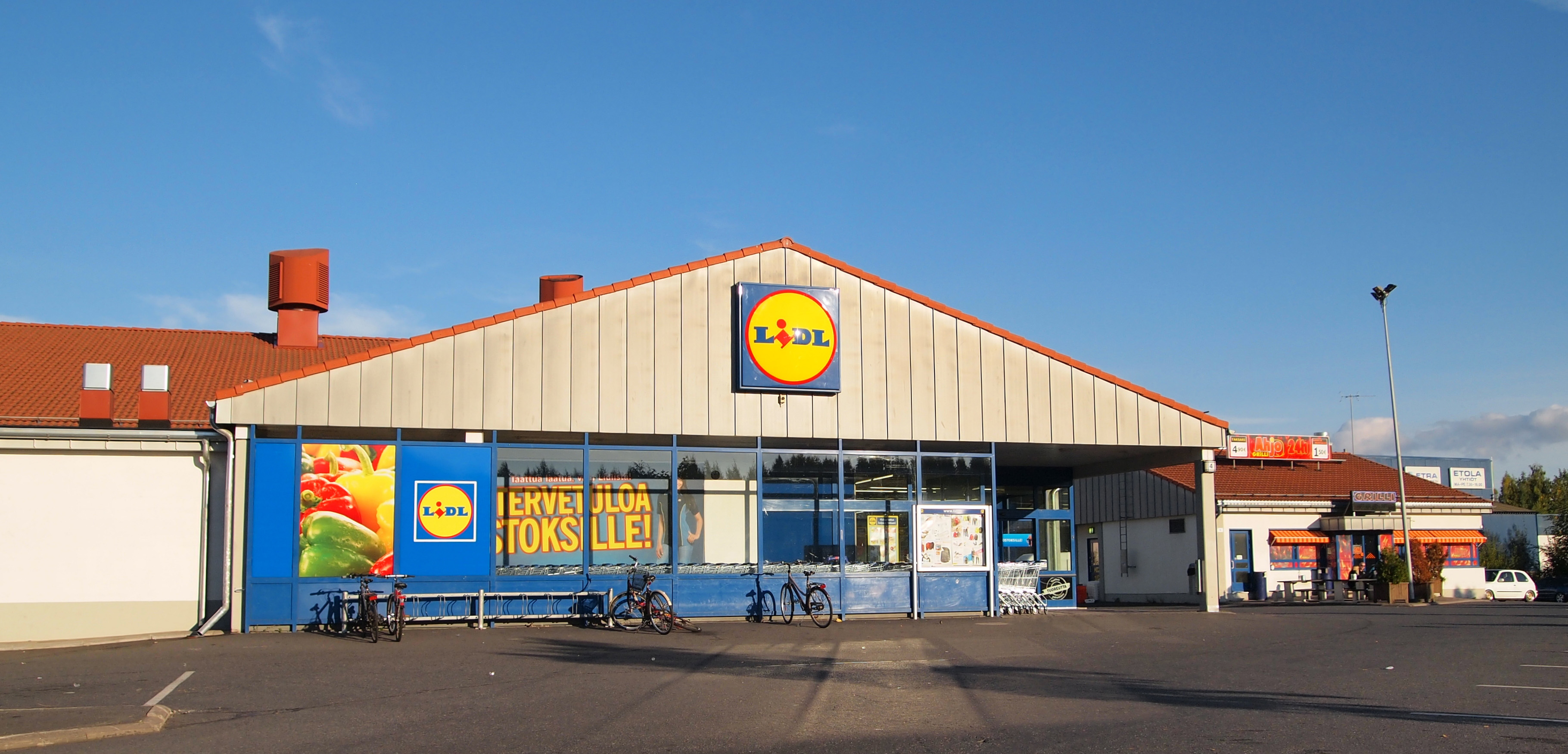 Lidl food store in Jyväskylä. This photograph was taken with an Olympus E-PL1